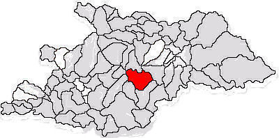 Limits of Băiuţ commune in Maramureş County